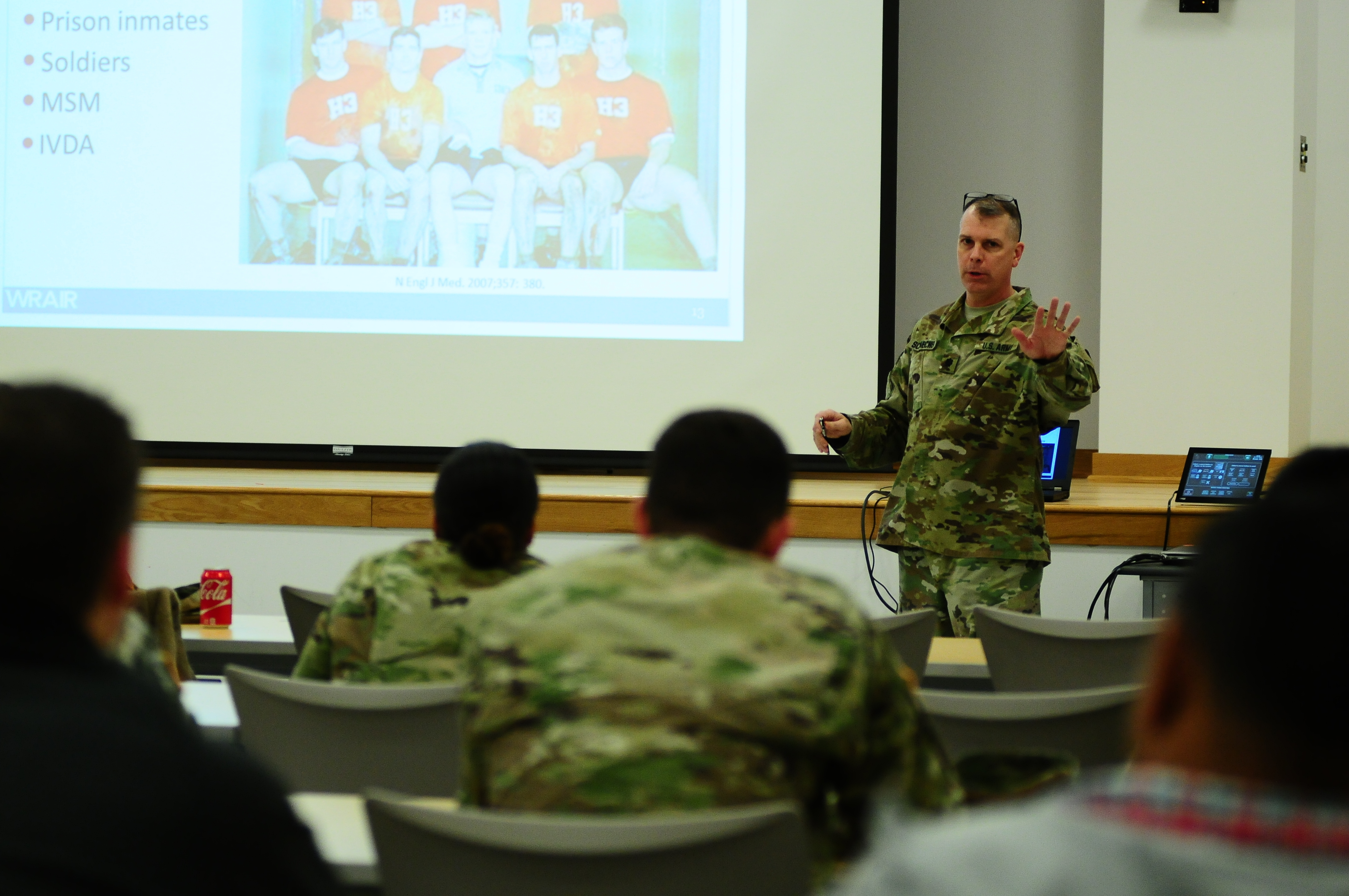 Lt. Col. Kurt Schaecher, Ph.D., from the Walter Reed National Military Medical Center, talks about diseases and illnesses endemic to tropical regions as part of his lecture during the 1st Area Medical Laboratory’s Operational Clinical Infectious Disease Course at the Mallette Training Facility in Aberdeen Proving Ground, Maryland from 10-12 Jan. More than 50 participants from 10 entities benefited from the locally-accredited three-day course and from instructors from various organizations. (U.S. Army photo by Angel D. Martinez-Navedo) Unit: 20th CBRNE Command DVIDS Tags: leaders; Uniform; Army; lecture; Aberdeen Proving Ground; 1st Area Medical Laboratory; Ebola; USAMRIID; Infectious Diseases; U.S. Army Medical Research Institute; lethal virus; Operational Clinical Infectious Disease; Mallette Training Facility; WRAIR; Professional Filler System